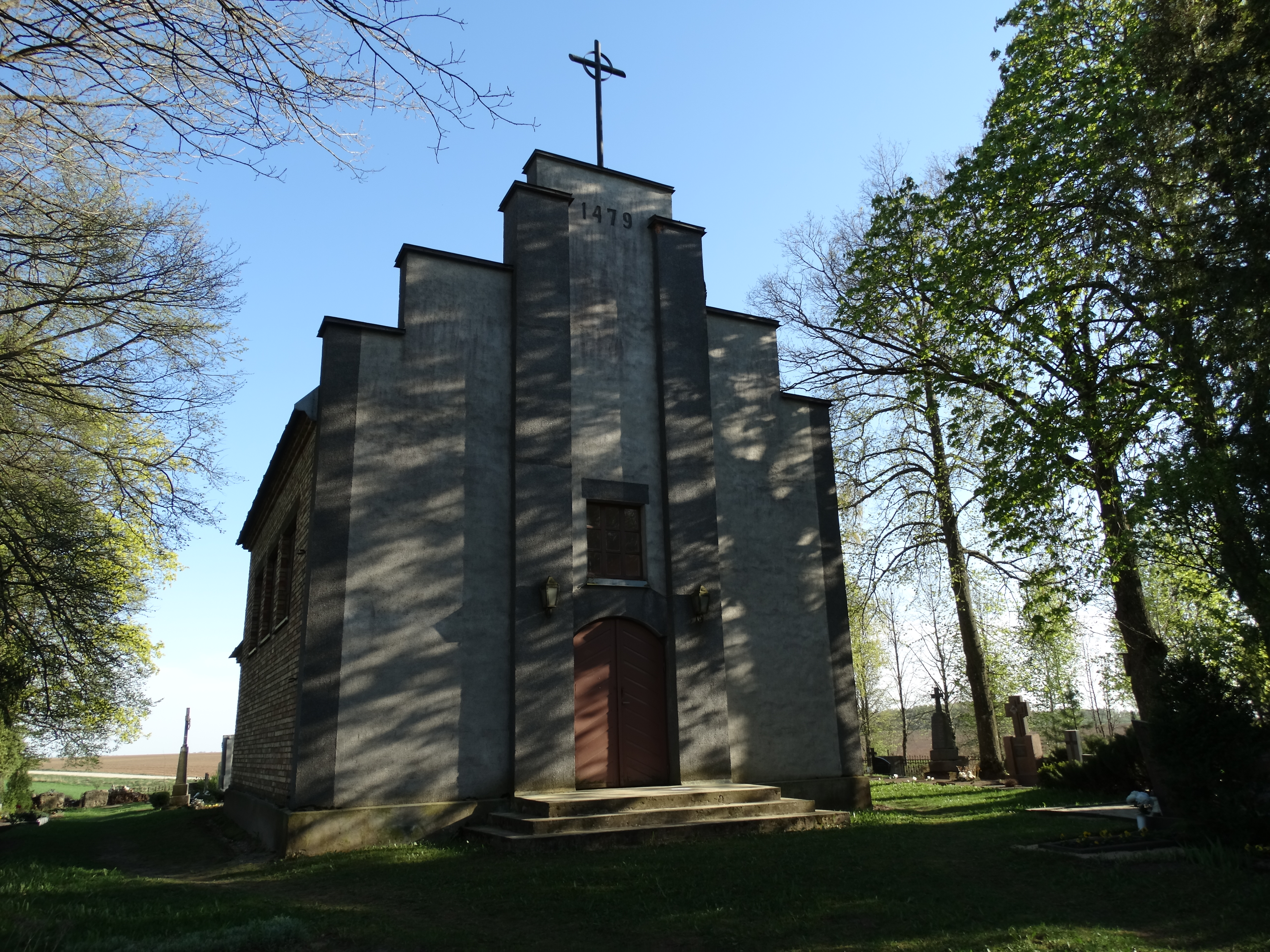 Chapel in Žibartoniai, Panevėžys District, Lithuania